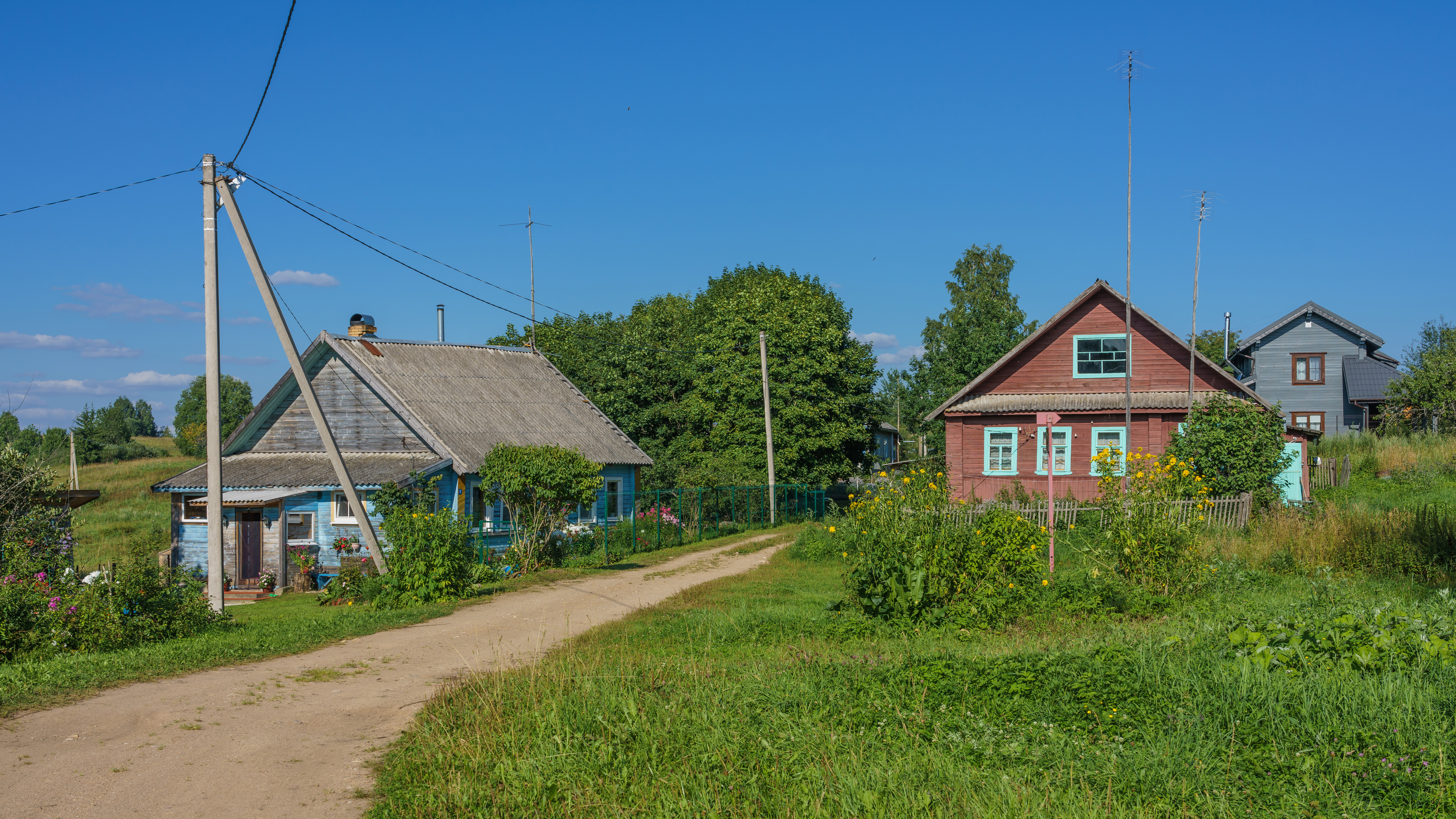 Houses in Bainyovo village in Valdai National Park, Novgorod Oblast, Russia